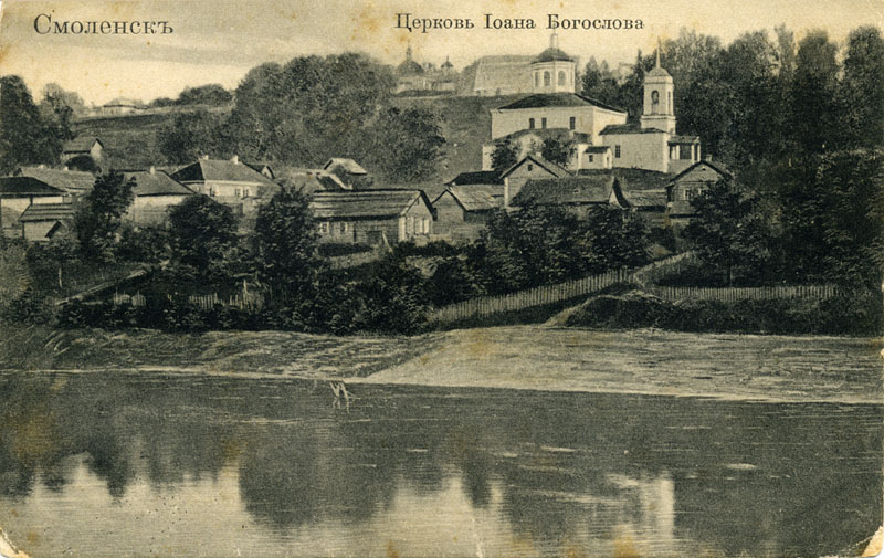 Church of St. John the Divine in Smolensk, on the other bank of the Dnieper.